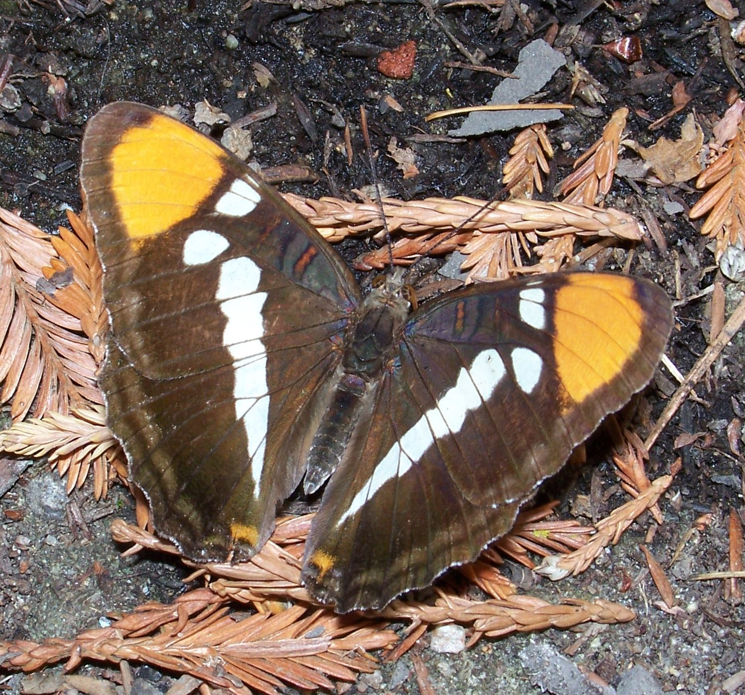 California Sister (Adelpha californica) Made in Saratoga, California. Identified by Alan Chin-Lee.